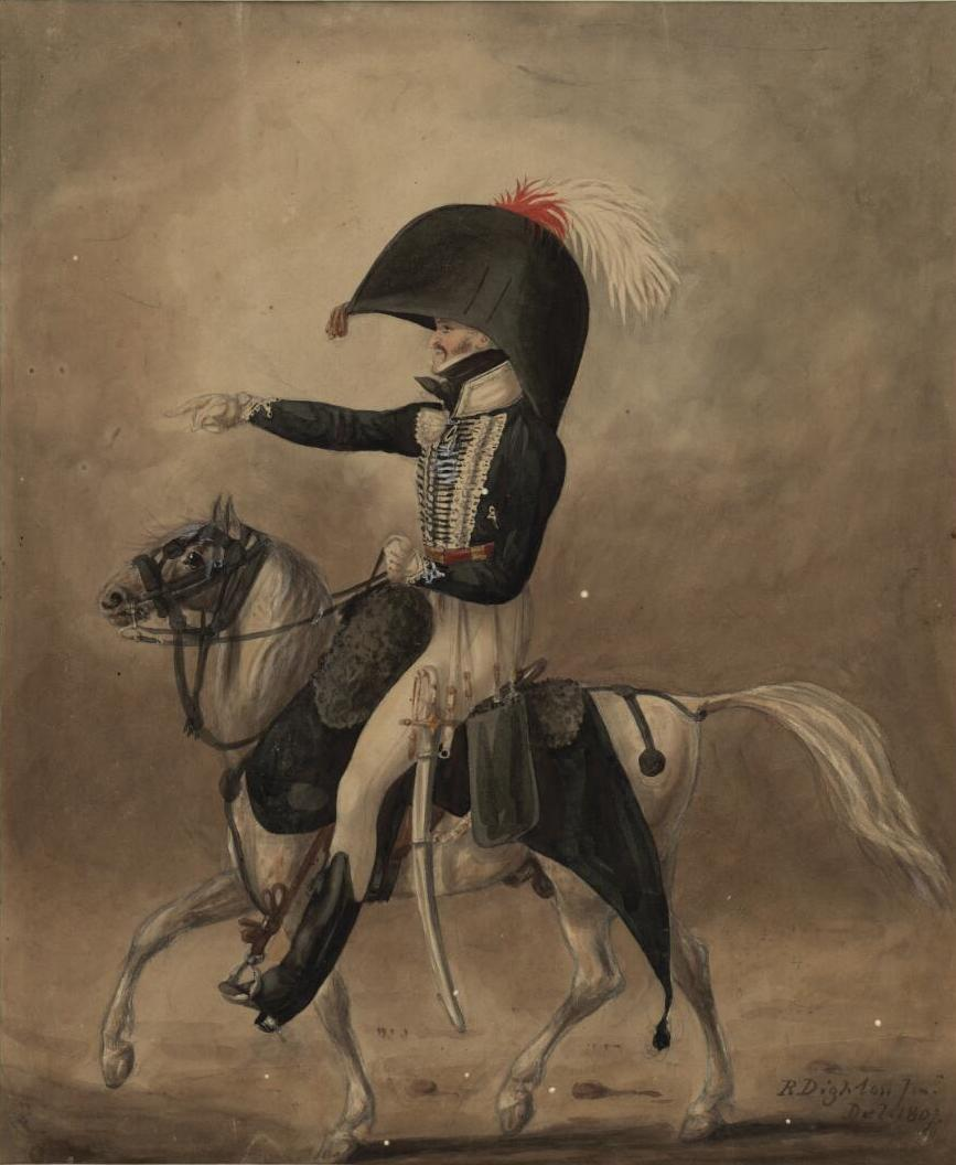 A portrait from the Welsh Portrait Collection at the National Library of Wales. Depicted person: Henry Paget, 1st Marquess of Anglesey – British officer and politician